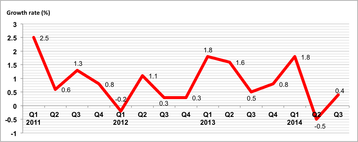 Growth rate of Turkey (%), created using Microsoft Excel